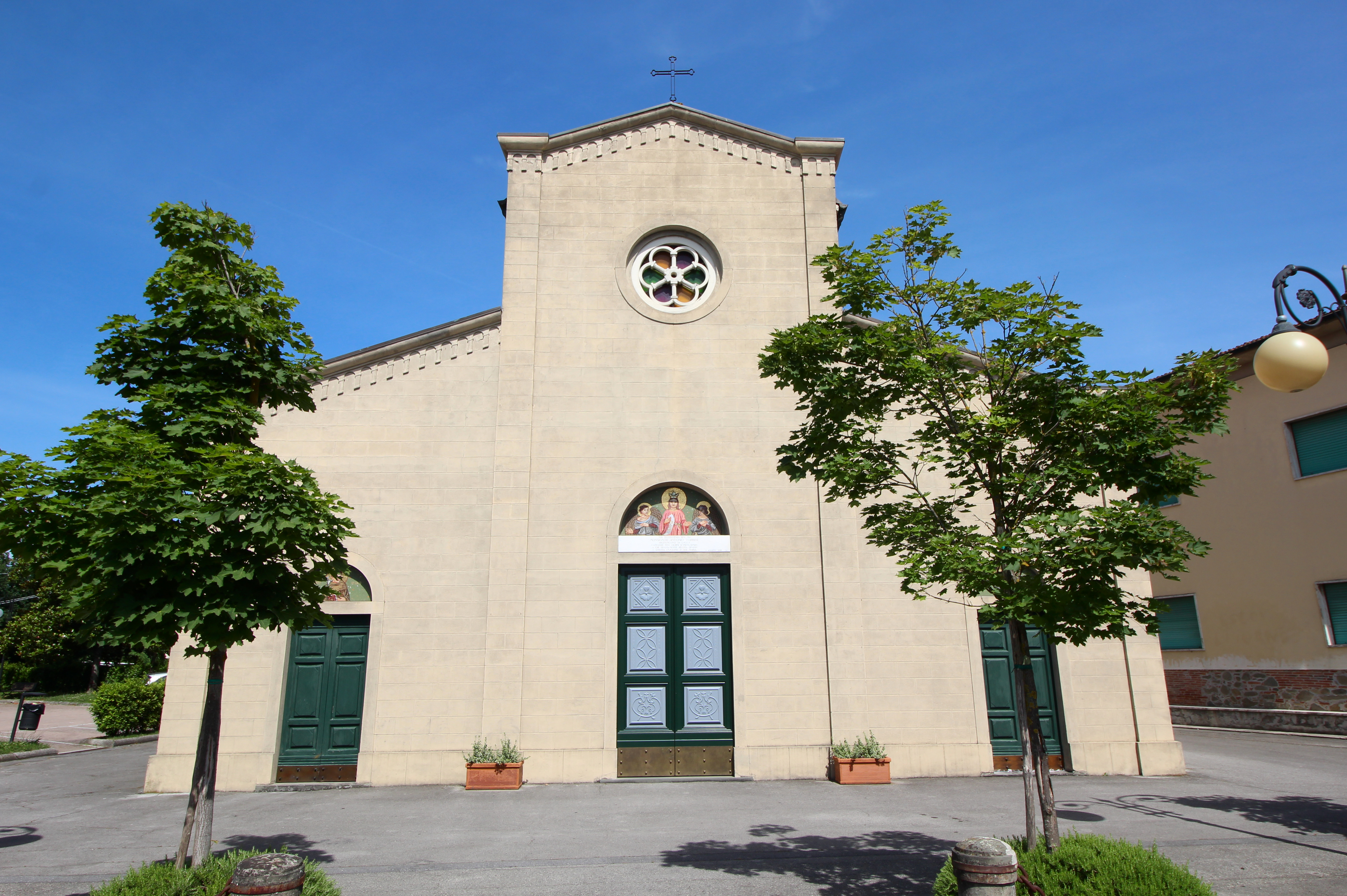 Church Natività di Maria, Rughi, hamlet of Porcari, Province of Lucca, Tuscany, Italy.